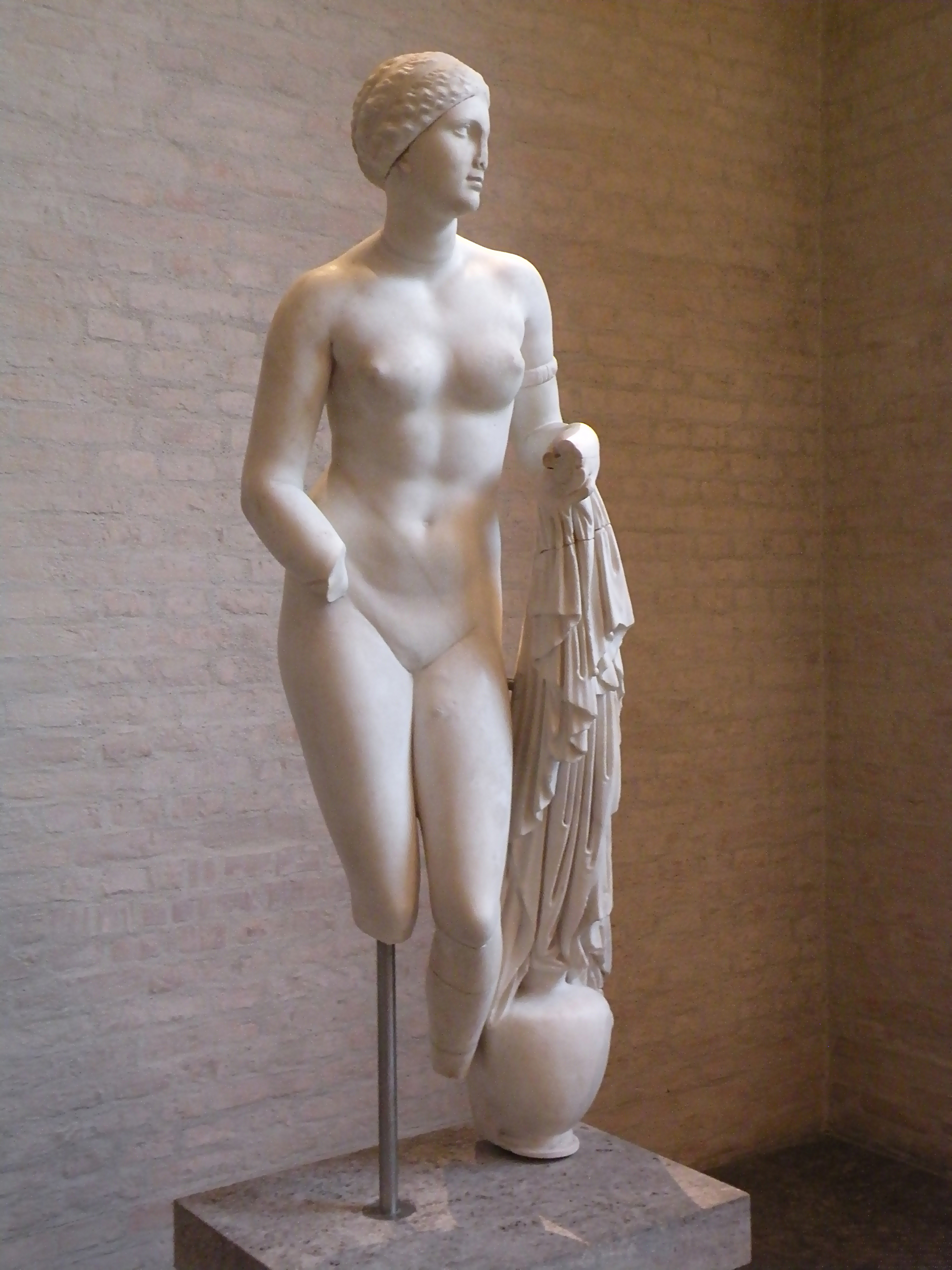 Aphrodite of Cnidus.Munich.